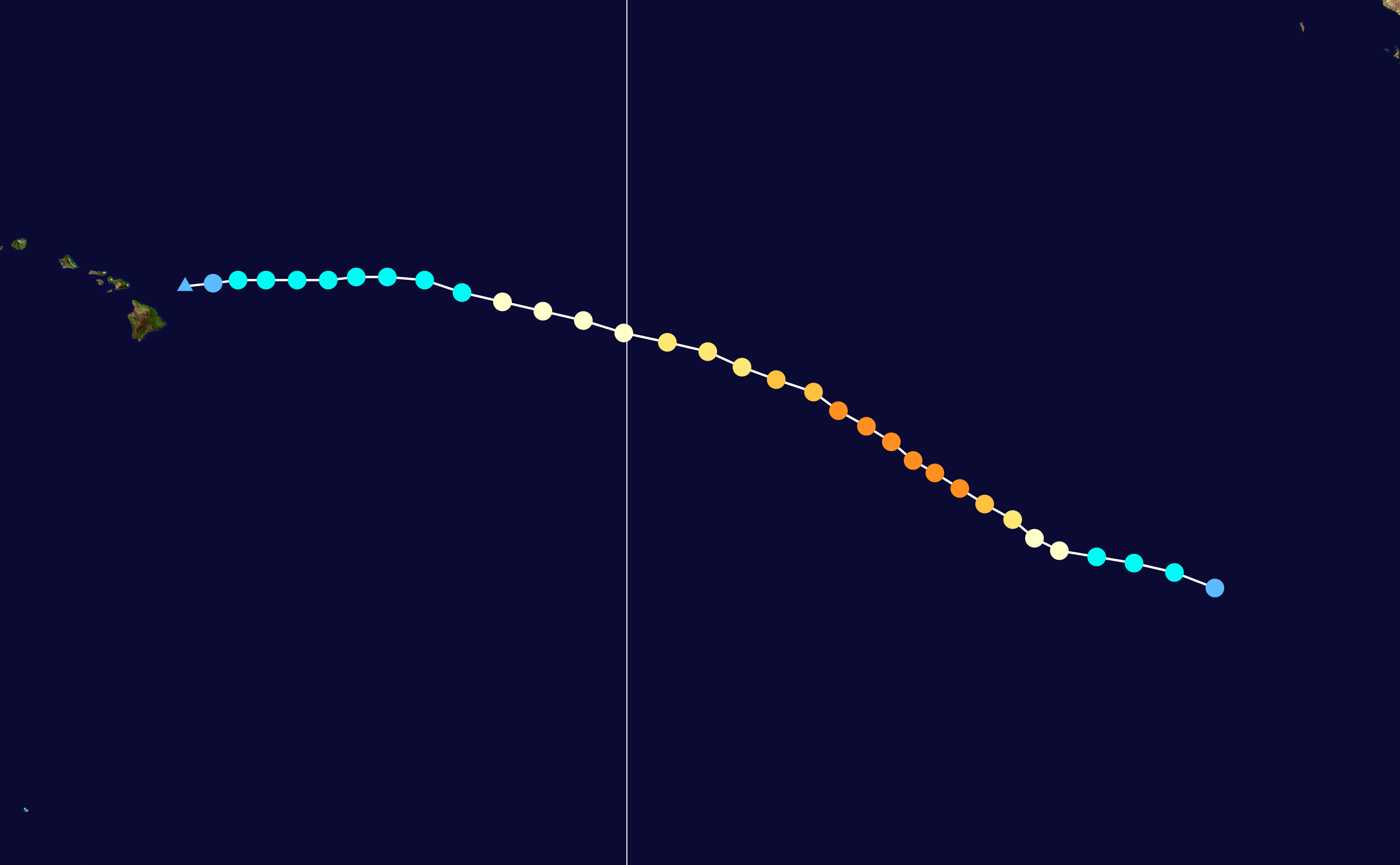 Track map of Hurricane Felicia of the 2009 Pacific hurricane season. The points show the location of the storm at 6-hour intervals. The colour represents the storm's maximum sustained wind speeds as classified in the Saffir–Simpson scale (see below), and the shape of the data points represent the nature of the storm, according to the legend below. Saffir–Simpson scale Tropical depression≤38 mph≤62 km/h Category 3111–129 mph178–208 km/h Tropical storm39–73 mph63–118 km/h Category 4130–156 mph209–251 km/h Category 174–95 mph119–153 km/h Category 5≥157 mph≥252 km/h Category 296–110 mph154–177 km/h Unknown Storm type Tropical cyclone Subtropical cyclone Extratropical cyclone / Remnant low / Tropical disturbance / Monsoon depression